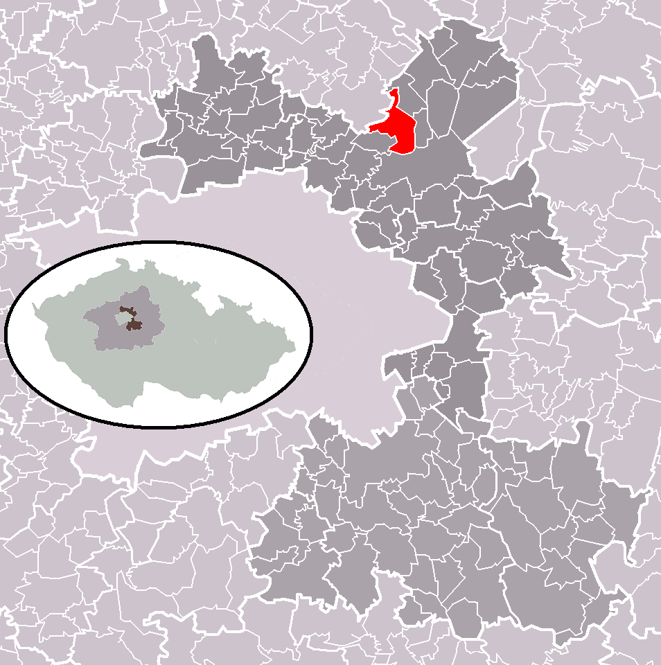 Location of Záryby municipality within Prague-East District and administrative area of Brandýs nad Labem-Stará Boleslav as a Municipality with Extended Competence.